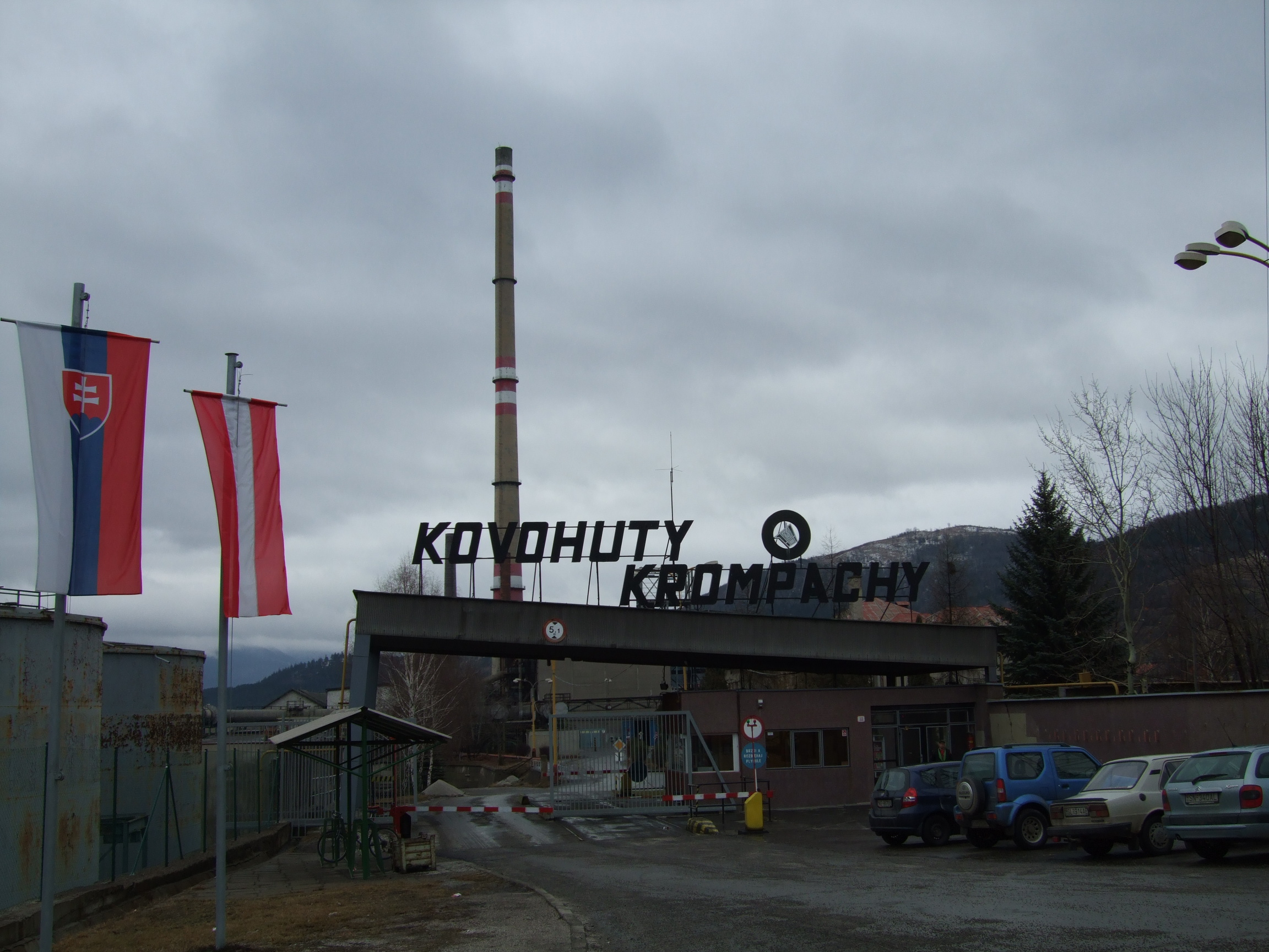 KOVOHUTY a.s. Krompachy